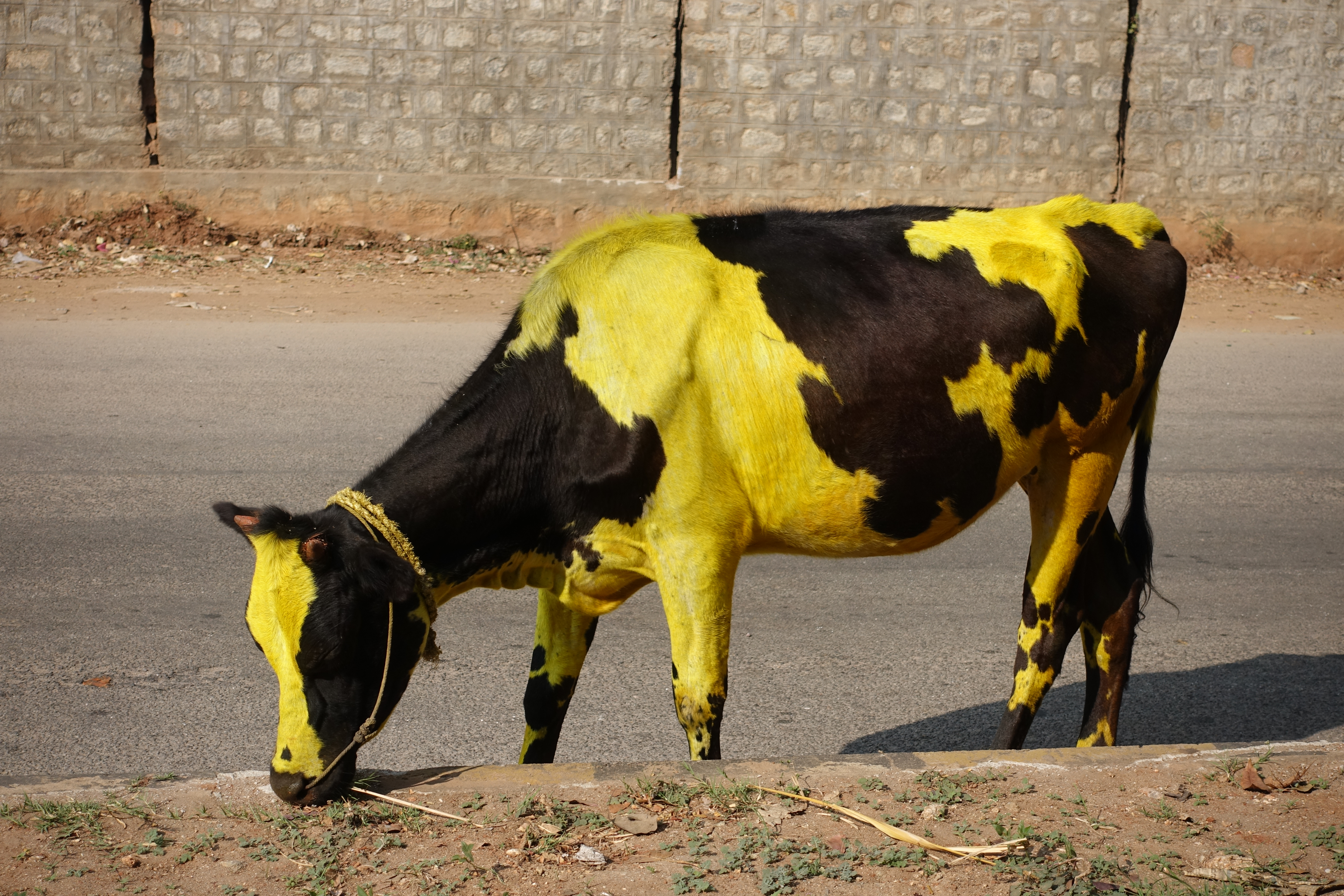 Cow stained yellow for Makar Sankranti celebration.